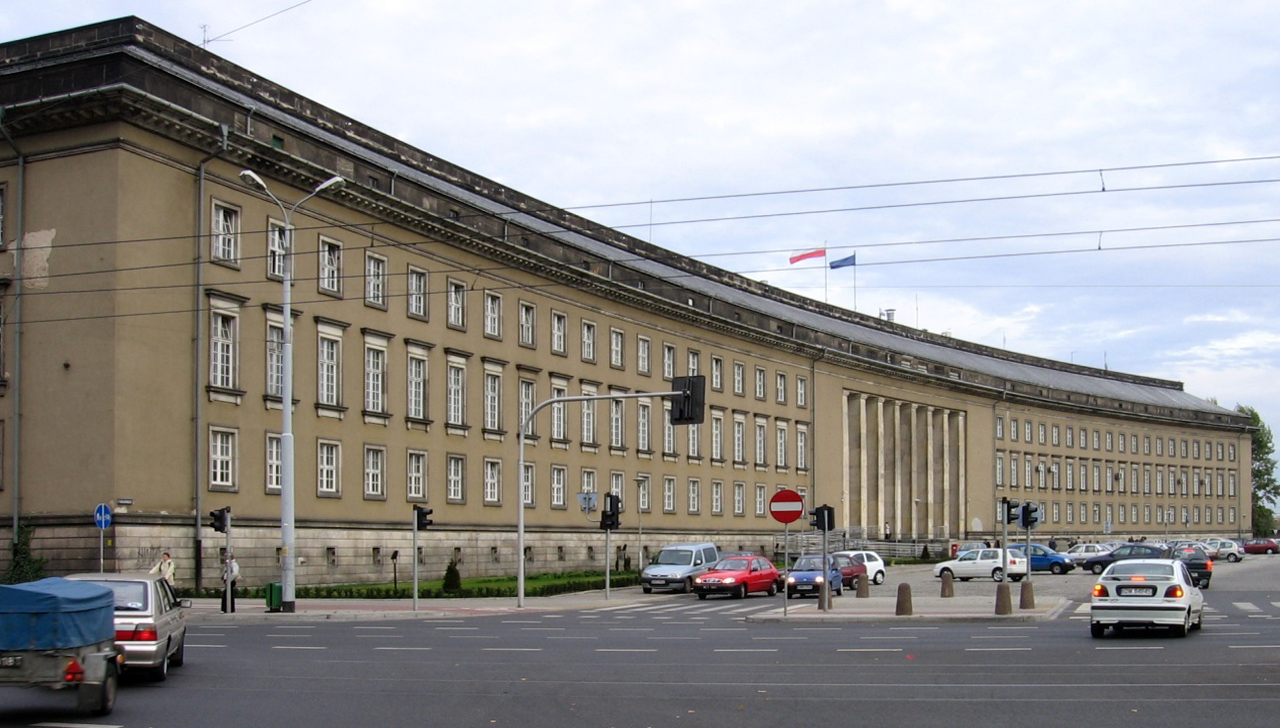 The seat building of the Lower-Silesia Voivodship authorities in Wrocław